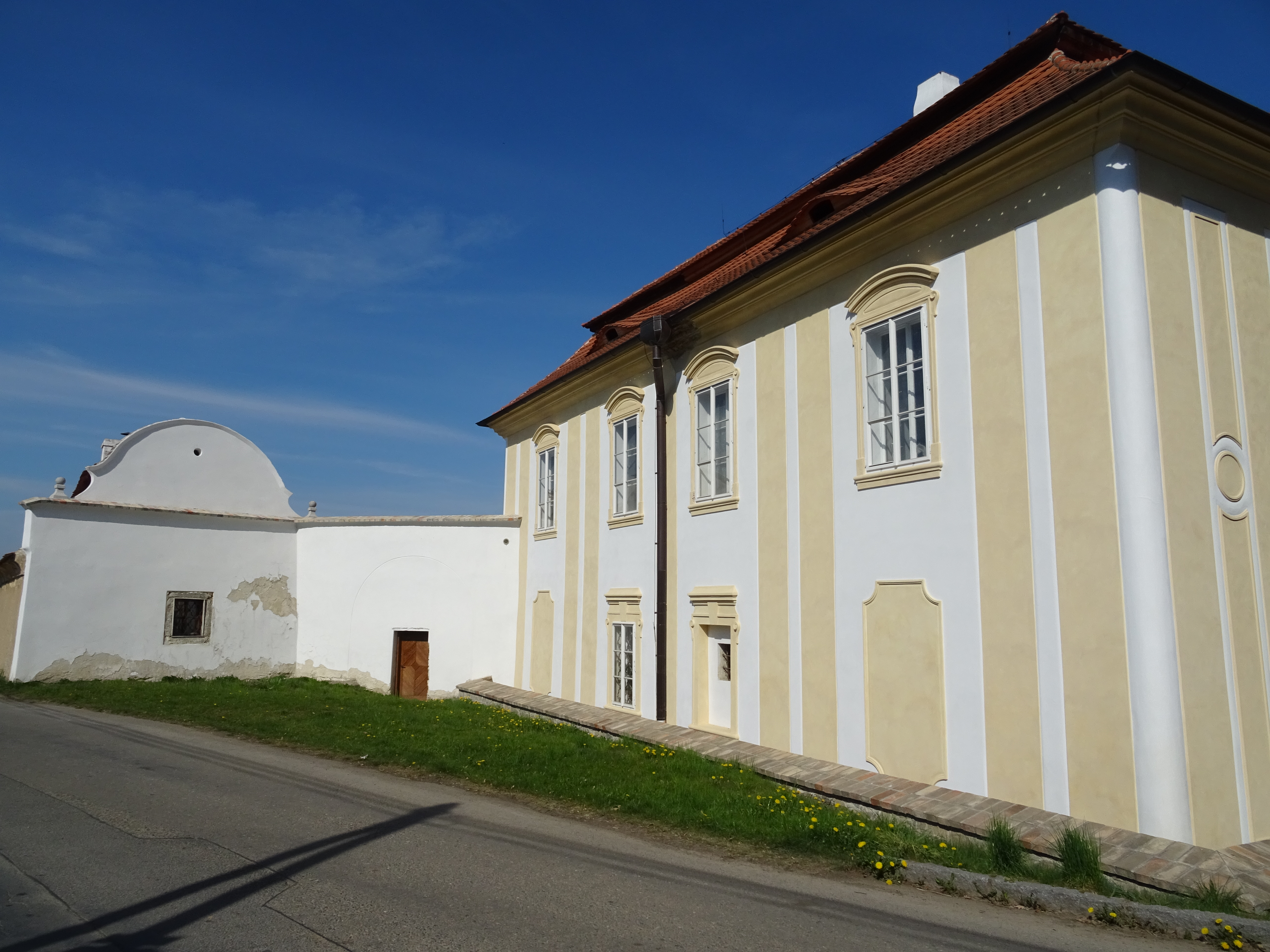 This photograph was created as a part of Wikiexpedition Mladá Vožice, a project supported by Wikimedia Foundation grant.